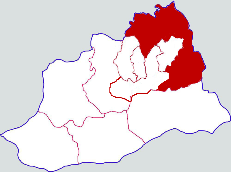 Location of Xiuwu county in Jiaozuo city, China